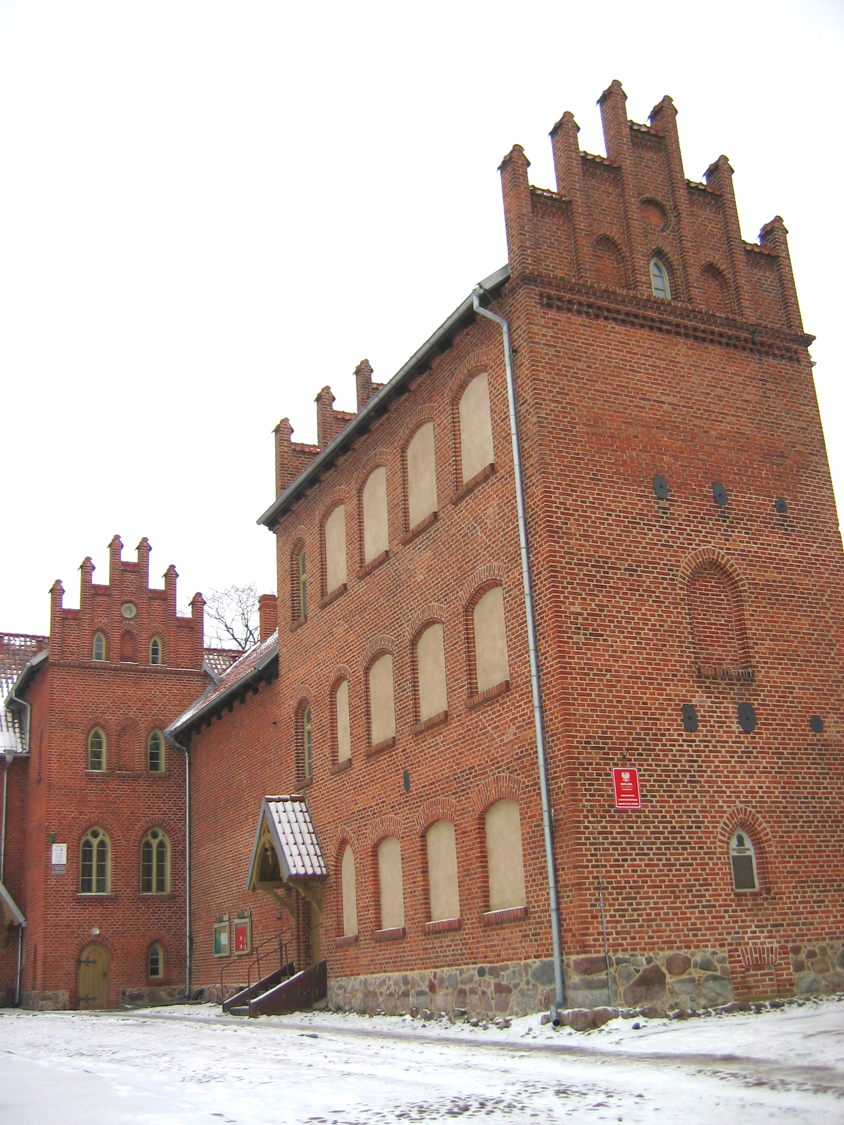 Castle of the Teutonic order in Olsztynek author User:Mathiasrex Maciej Szczepańczyk